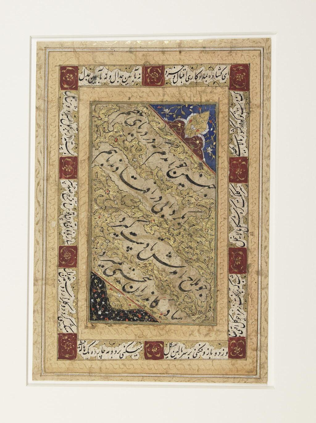 This calligraphic fragment includes, in the main text panel, four verses from Sa'di's "Bustan" (The Fruit Orchard), in which he succinctly describes the tragic story of two lovers who fall into a whirlpool in the sea. Script: nasta'liq.